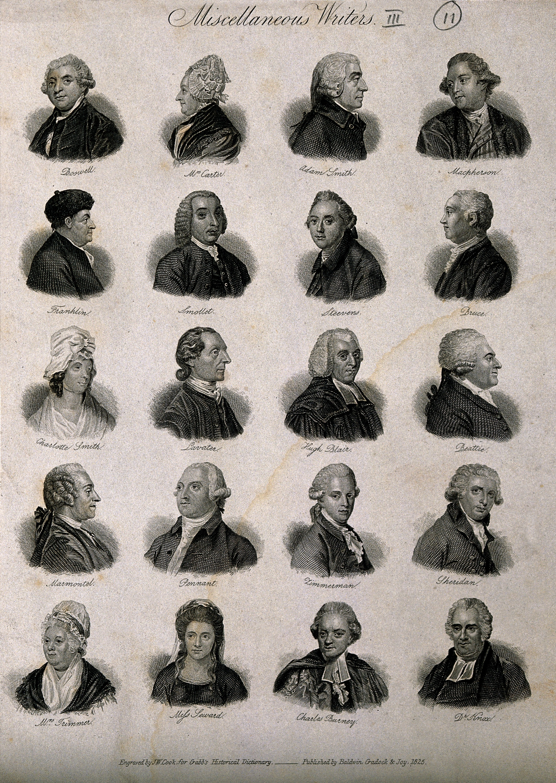 Writers: twenty portraits. Engraving by J.W. Cook, 1825. Iconographic Collections Keywords: J. W. Cook; Thomas Pennant; Tobias Smollett; James Beattie; Bruce; Richard Brinsley Sheridan; George Stevens; Sarah Trimmer; Adam Smith; James Macpherson; Jean François Marmontel; Charles Burney; Benjamin Franklin; Charlotte Smith; Johann Caspar Lavater; Elizabeth Carter; James Boswell; Vicesimus Knox; Johann Georg Zimmerman; Hugh Blair; Anna Seward